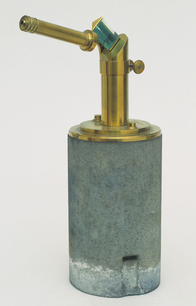 AuthorGiovanni Battista AmiciDescription